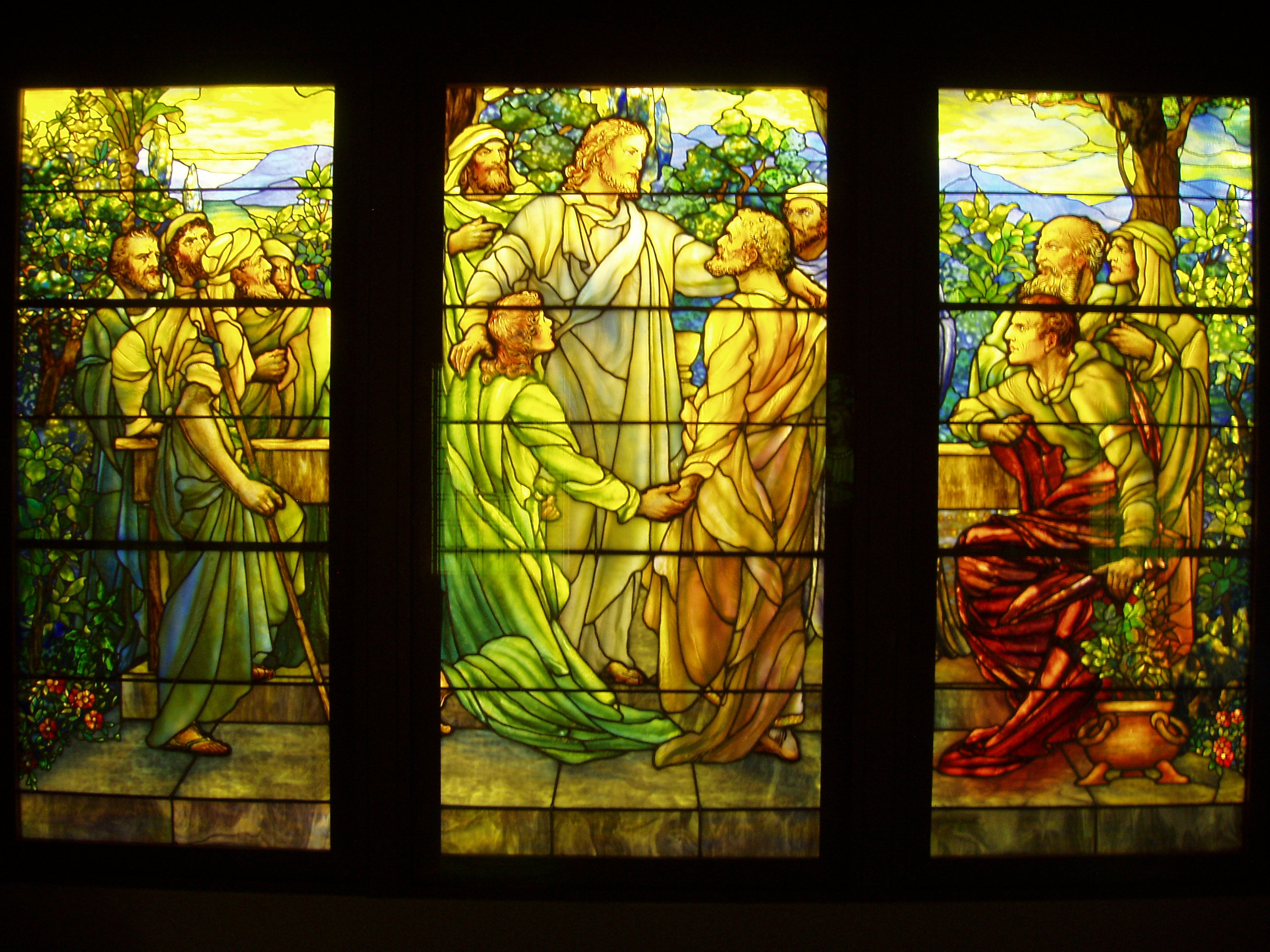 Christ and the Apostles - Tiffany Glass & Decorating Company, c. 1890.